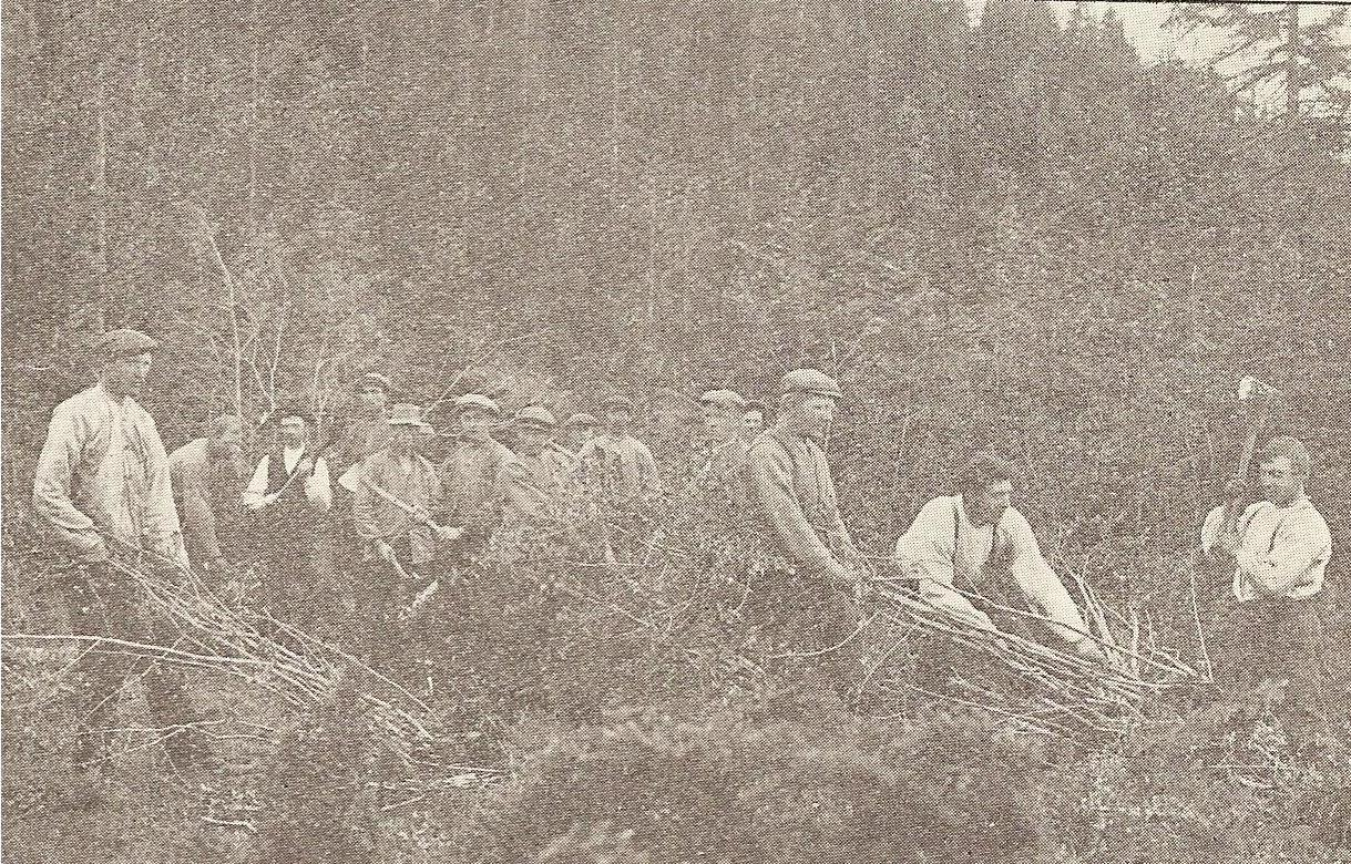 Working men in a forest in Skatval, 1926. Please excuse the bad quality, but the picture was exactly like this in the book I scanned it from...